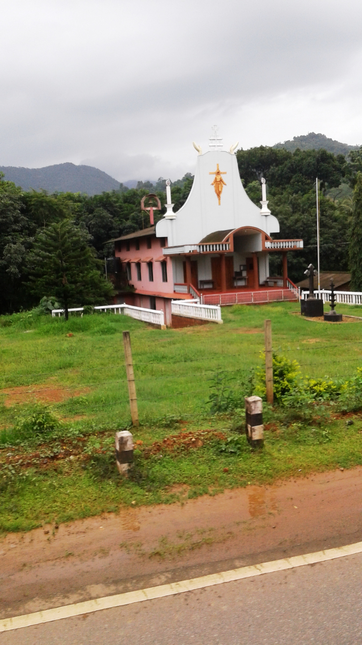 Madikeri-Sullia Road, Kodagu district, Karnataka state, India.